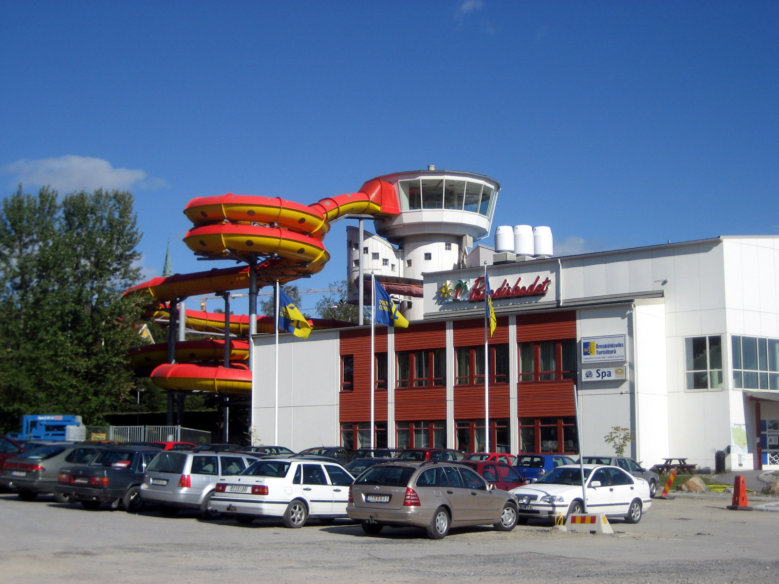 Paradisbadet, an indoor water park in Örnsköldsvik, Sweden